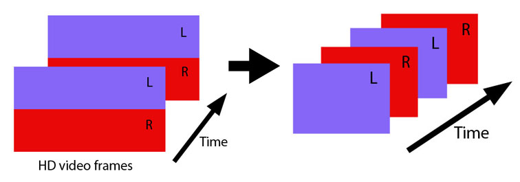 Top and bottom 3D video signal to frame sequential stereoscopic 3D